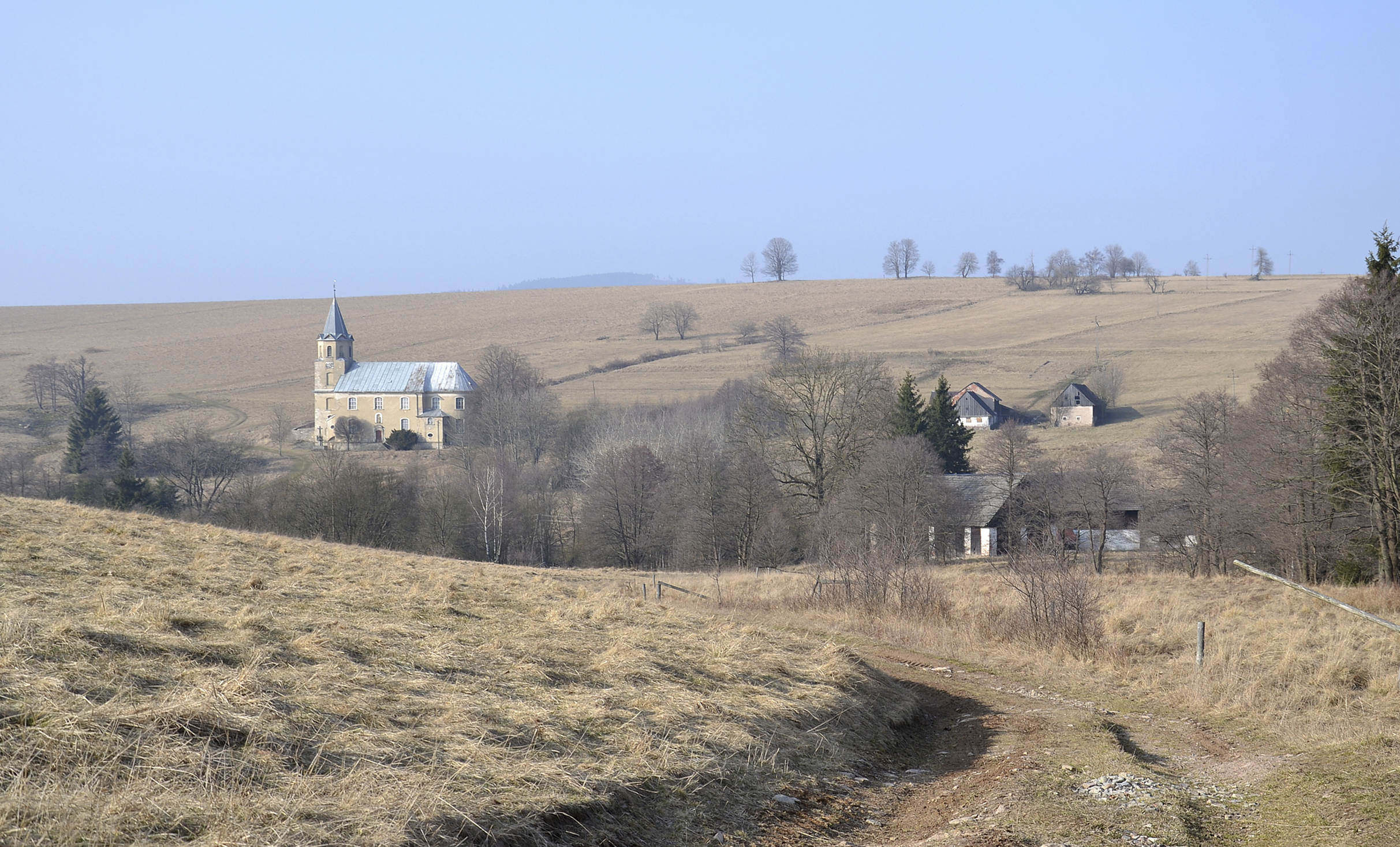 Lesica (Freiwalde), village in Lower Silesia Region